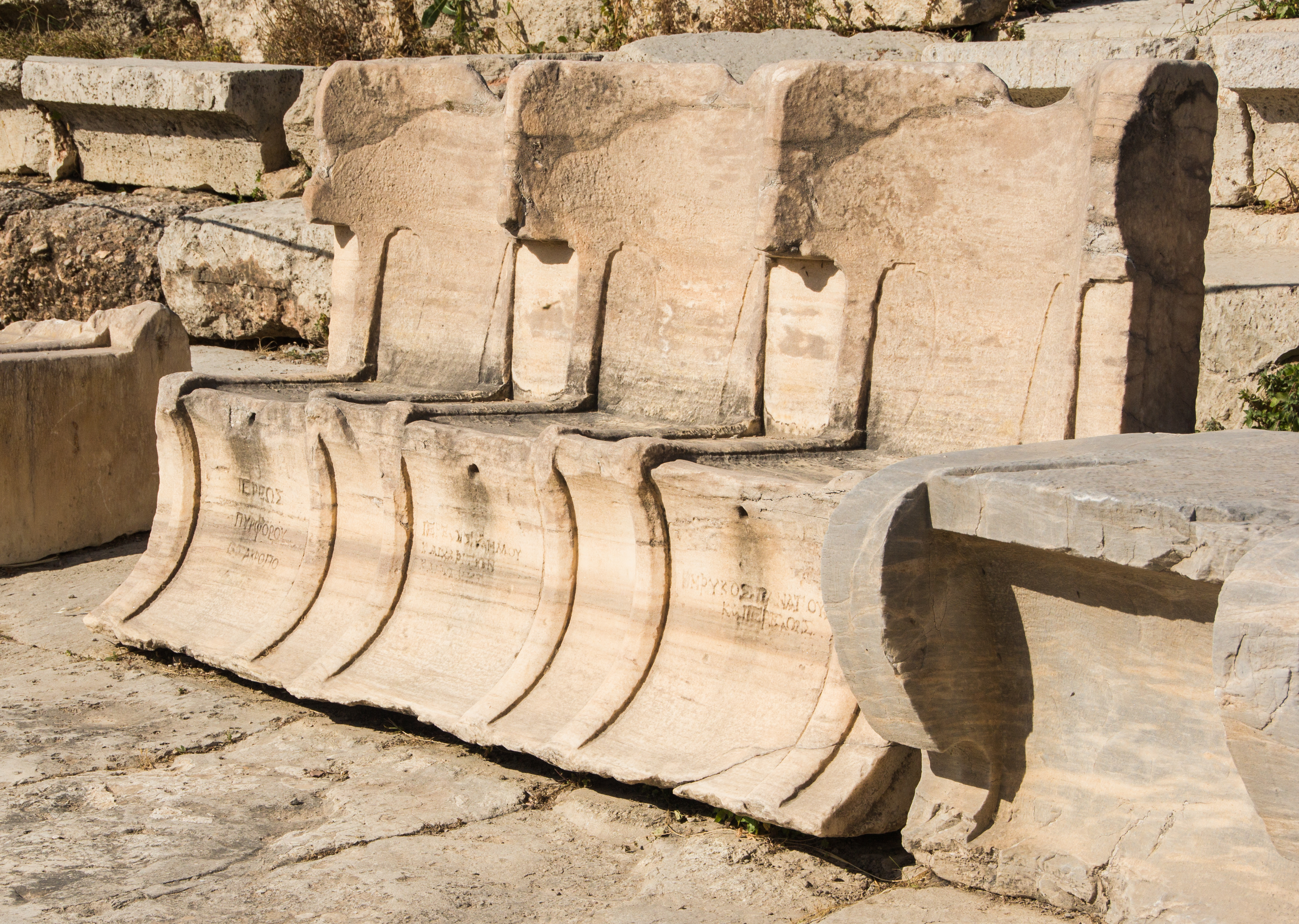 Three stone armchairs with inscriptions in the theatre of Dionysus, Athens, Greece